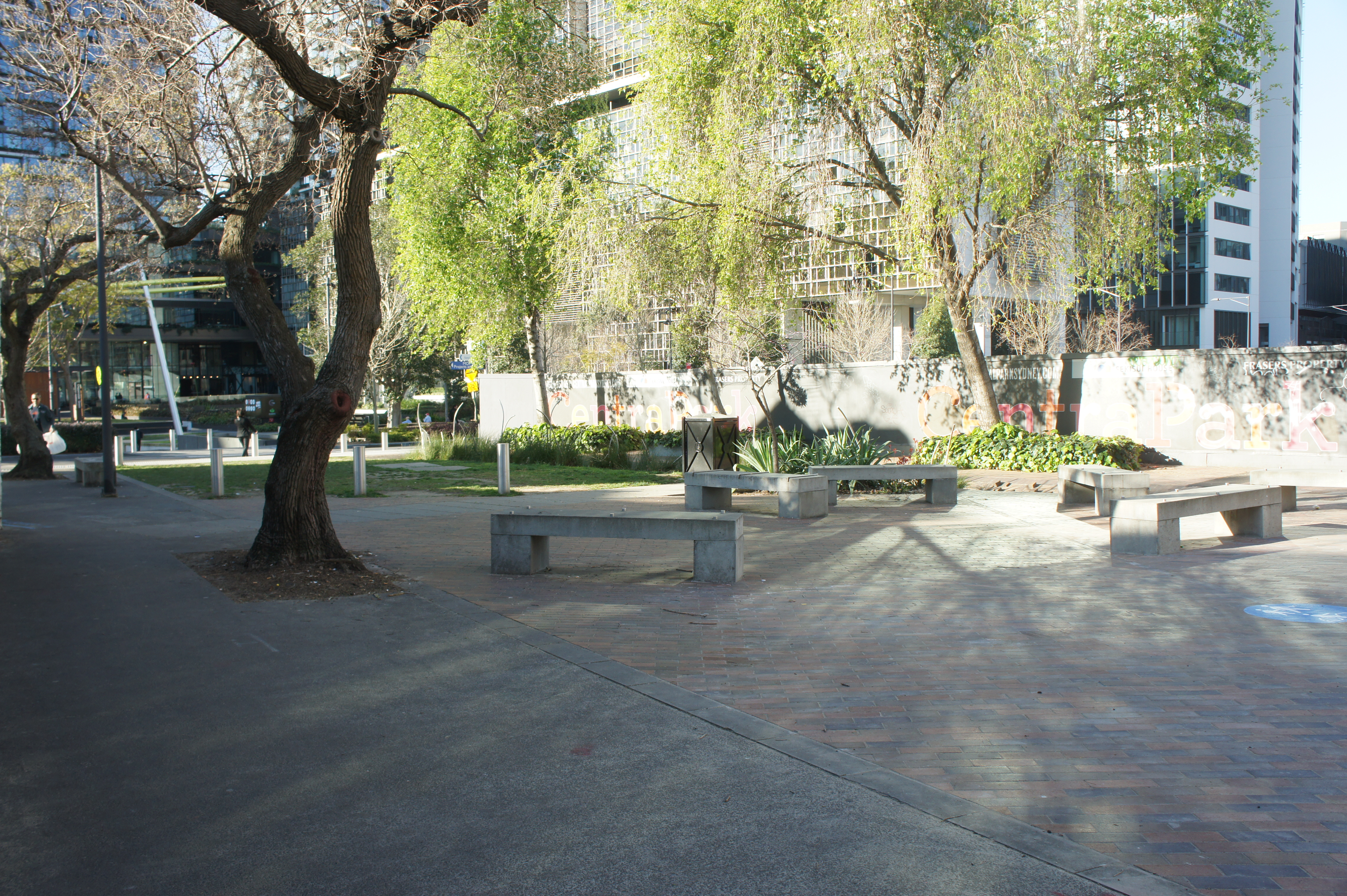 overall image of balfour street pocket park located in chippendale, nsw